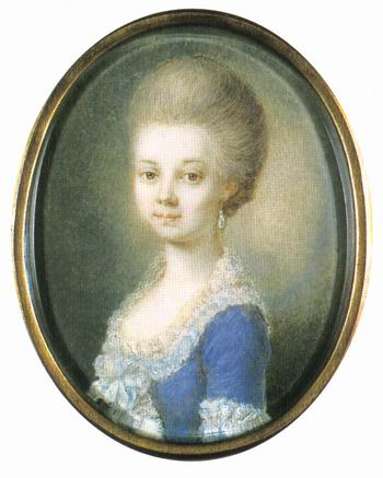 Portrait of Princess Carolina of Parma (1770-1804)